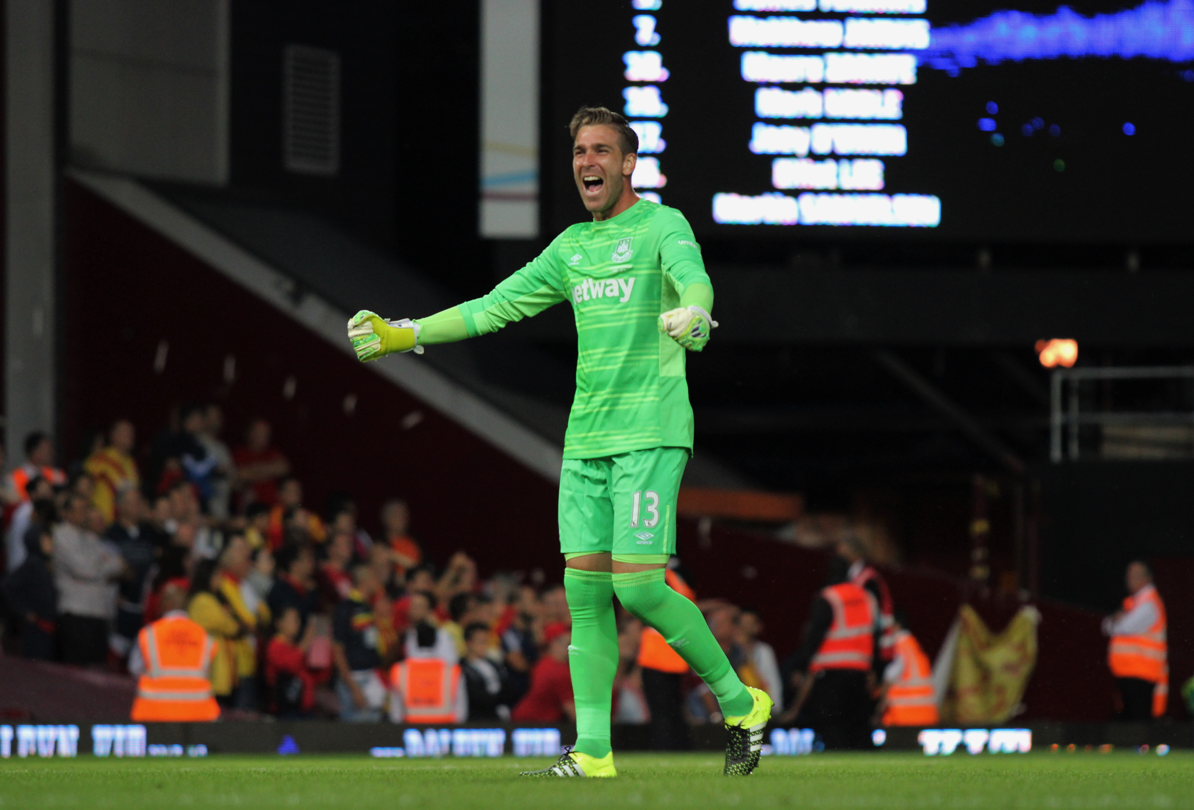 Adrian of West Ham celebrates the last minute winner against Birkirkara.